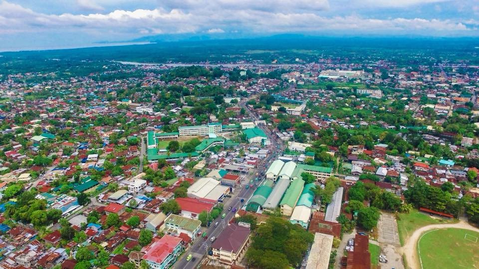 Drone shot of Cotabato City